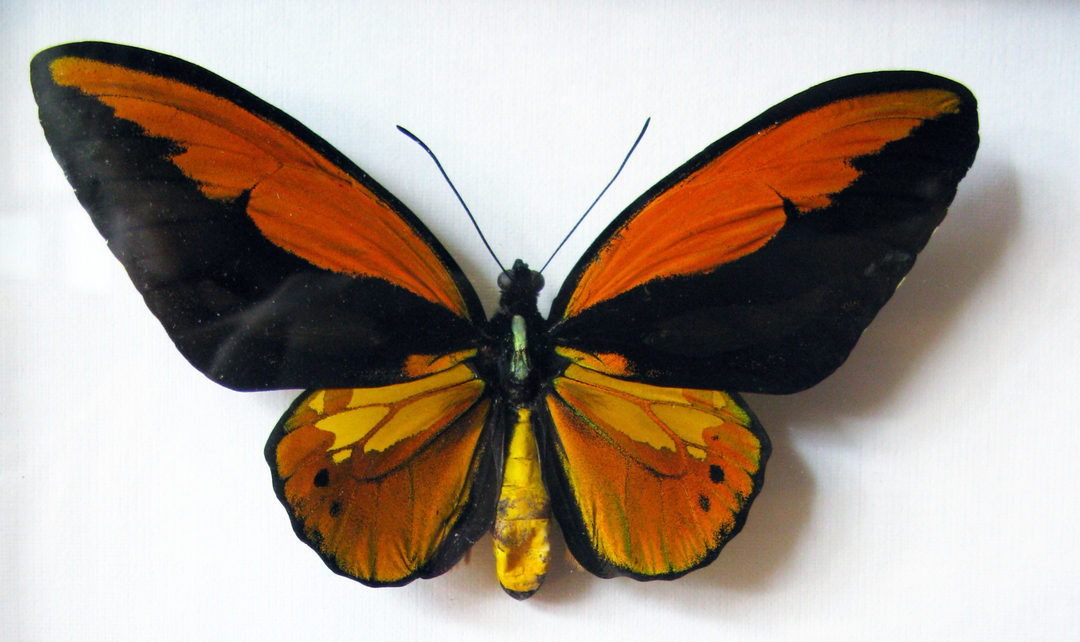 Ornithoptera croesus male